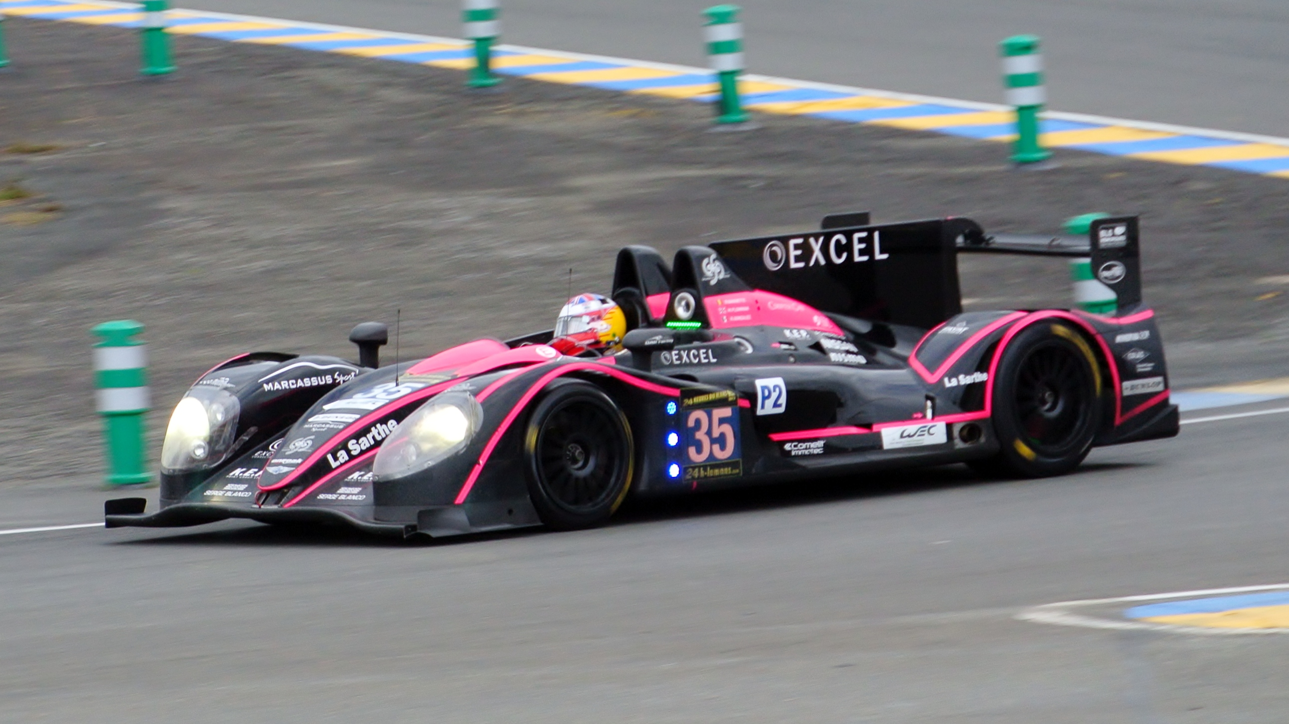 2013 Oak Racing Morgan Nissan LMP2 Le Mans series racing car (driven by Martin Plowman). 4,494cc normally aspirated V8